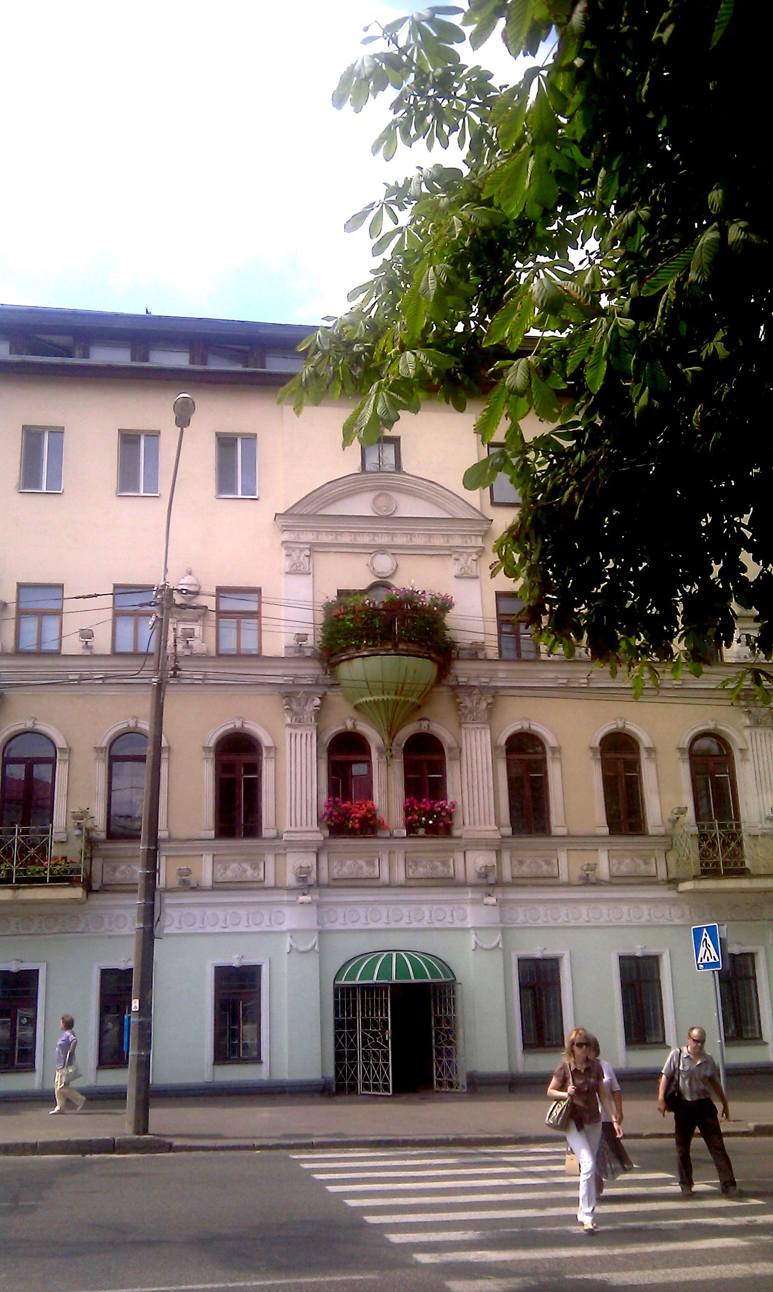 The house No. 76 down the Miasnikoŭ street in Minsk